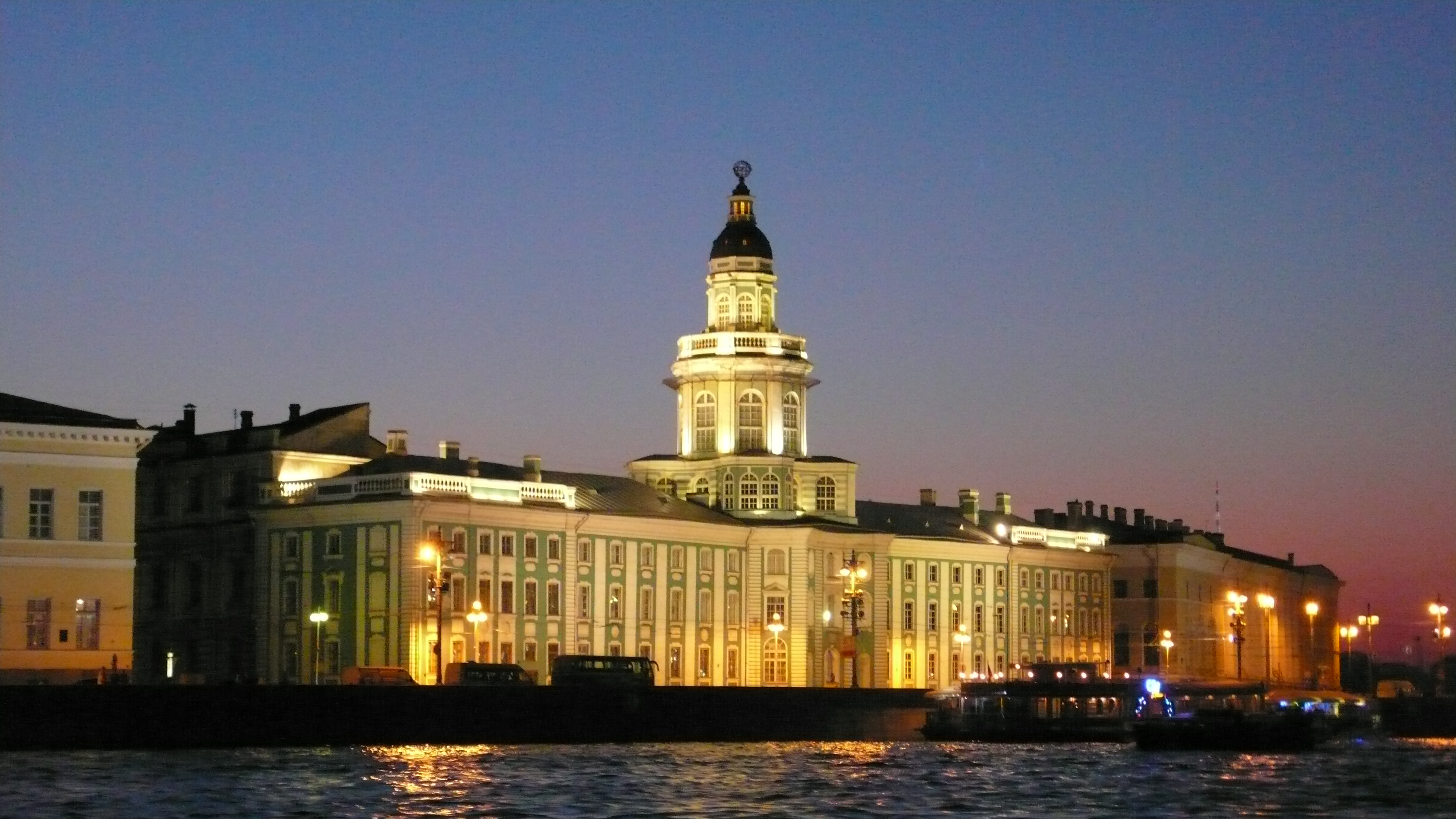 View from Neva River